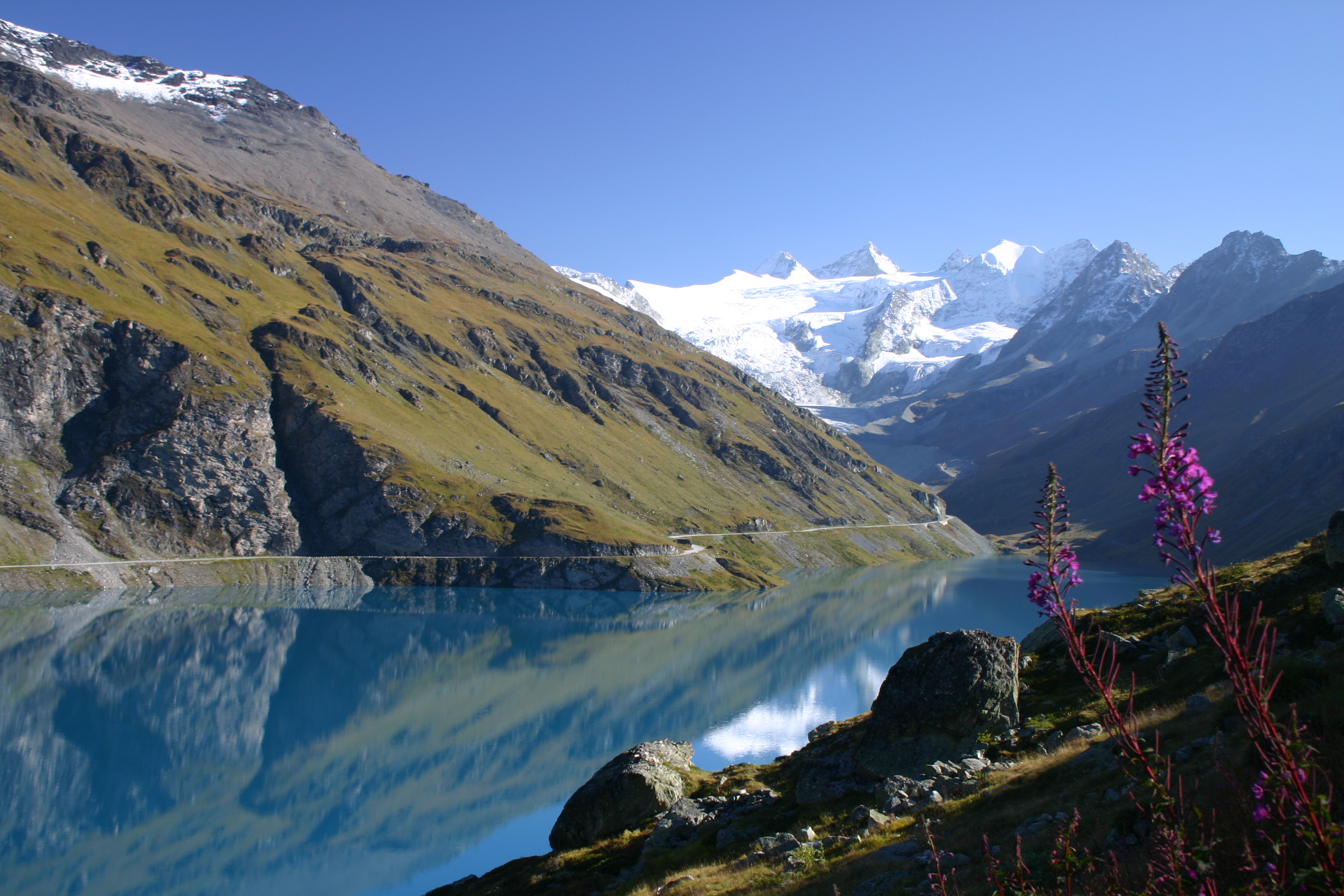 Lac de Moiry, near Grimentz, Valais, Switzerland. Glacier de moiry in the background.